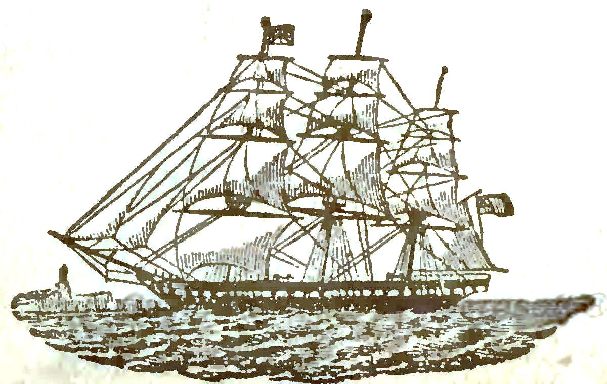 Voyages in the Northern Pacific - Cover image